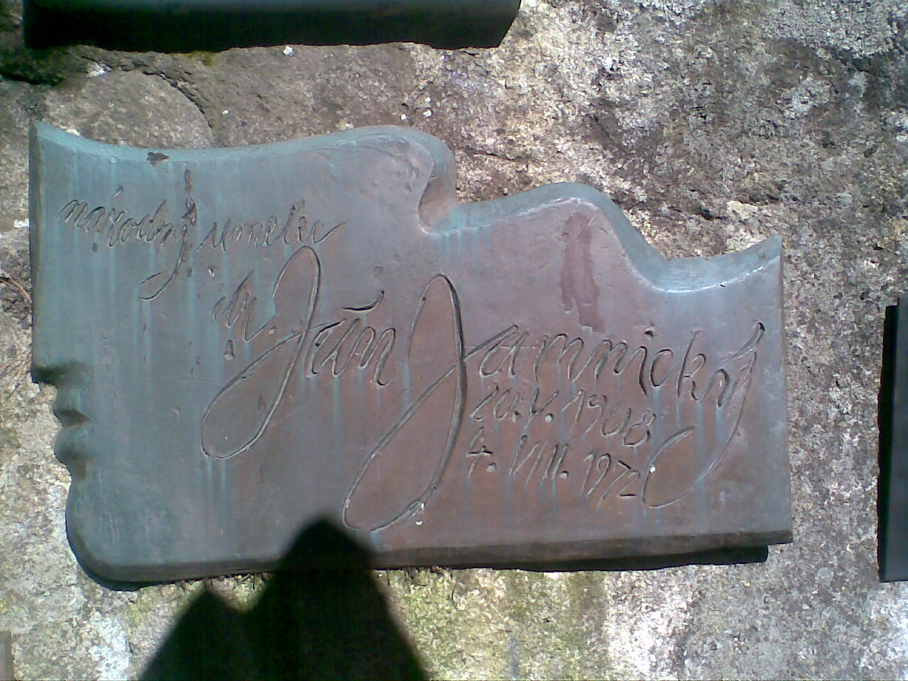 Tribute to Ján Jamnický in High Tatras - Symbolický cintorín pri Popradskom plese